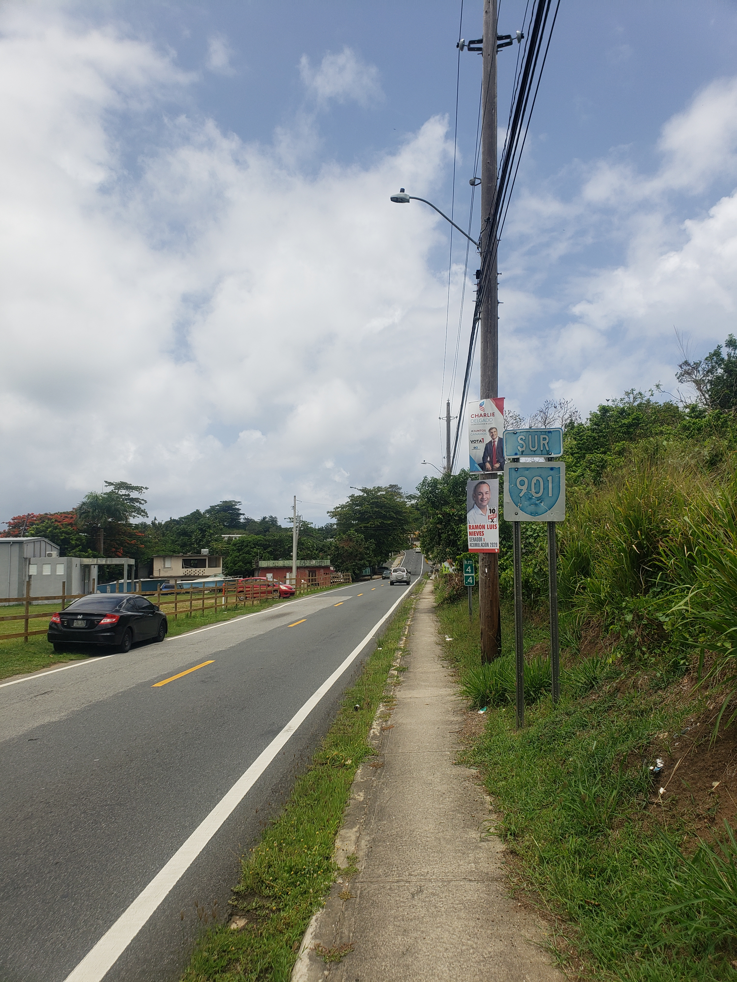 A stretch of PR-901 in Camino Nuevo, Yabucoa, Puerto Rico